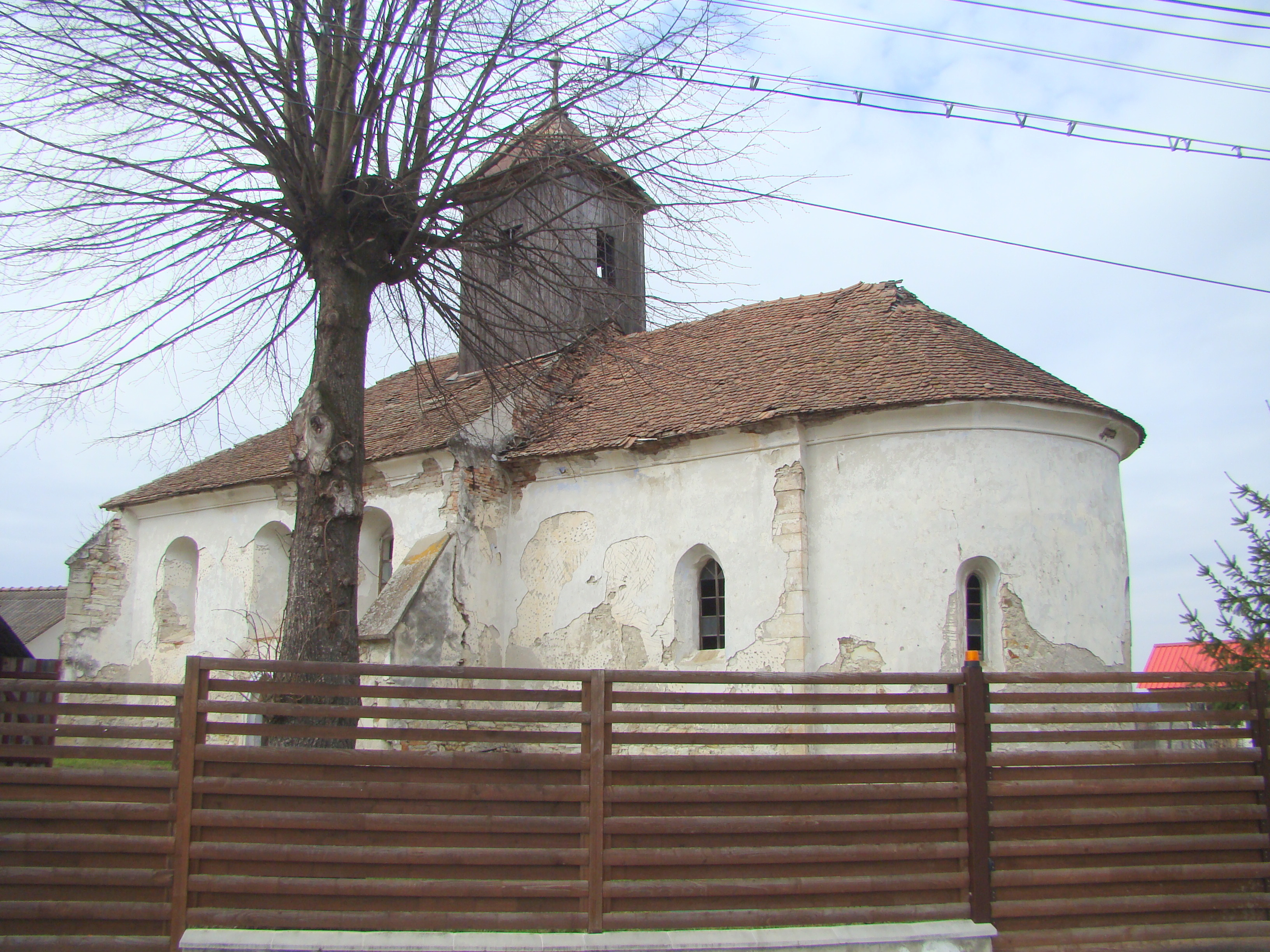 Lutheran church in Șieu-Măgheruș, Bistrița-Năsăud county, Romania